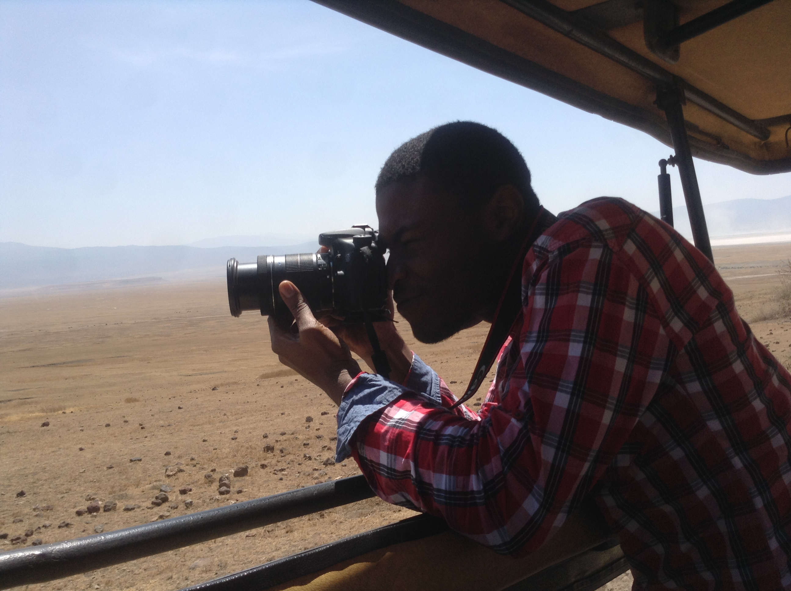 Chasseur d'image en safari This is an image of "African people at work" from Ivory Coast